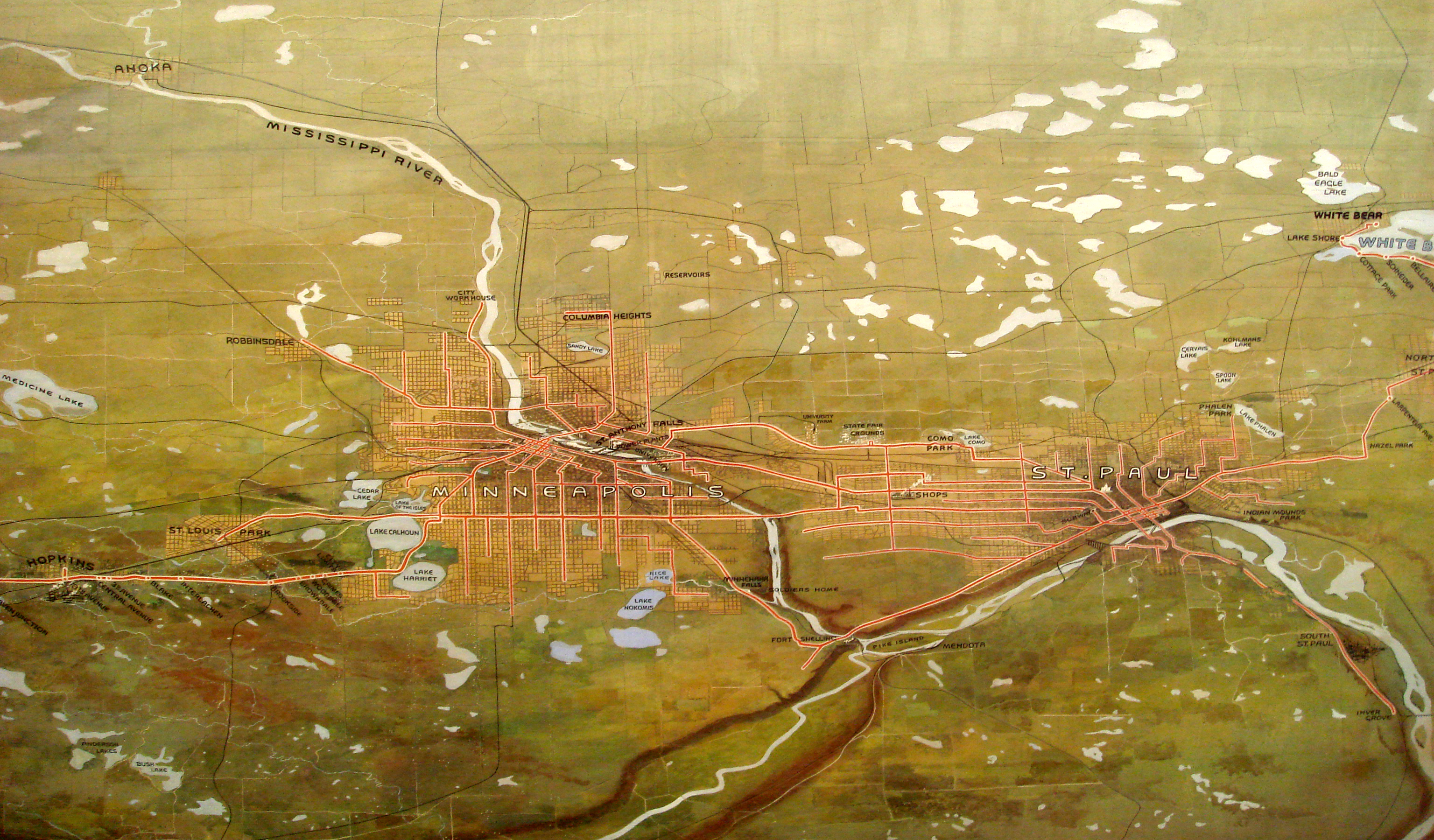 This is a photo taken of a portion of a historic-public-domain image document titled: "Perspectives of St. Paul, Minneapolis and Vicinity" Warehouse District/Hennepin Avenue station of the Hiawatha Line in Minneapolis, Minnesota.